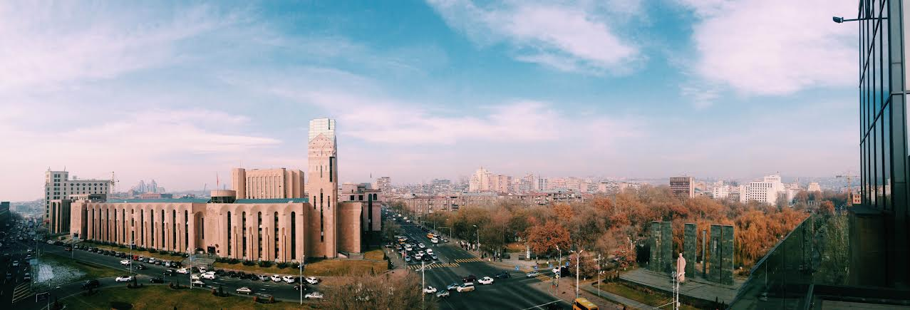 Yerevan City Council